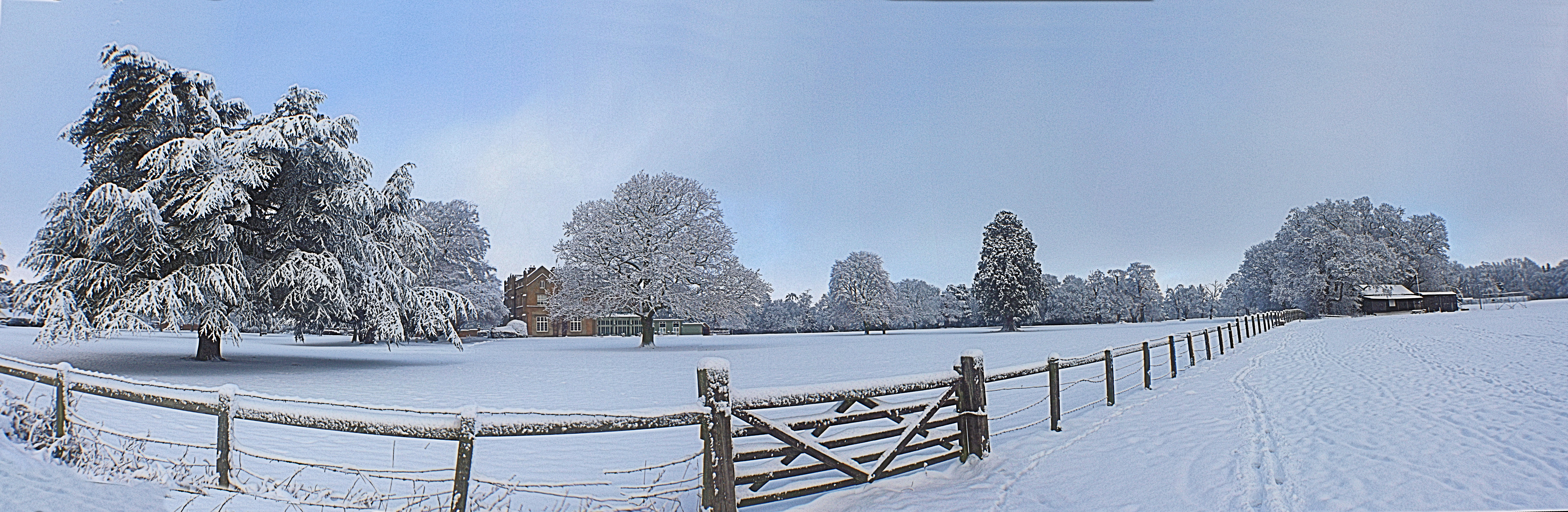 Panoramic view of offley place December 2009